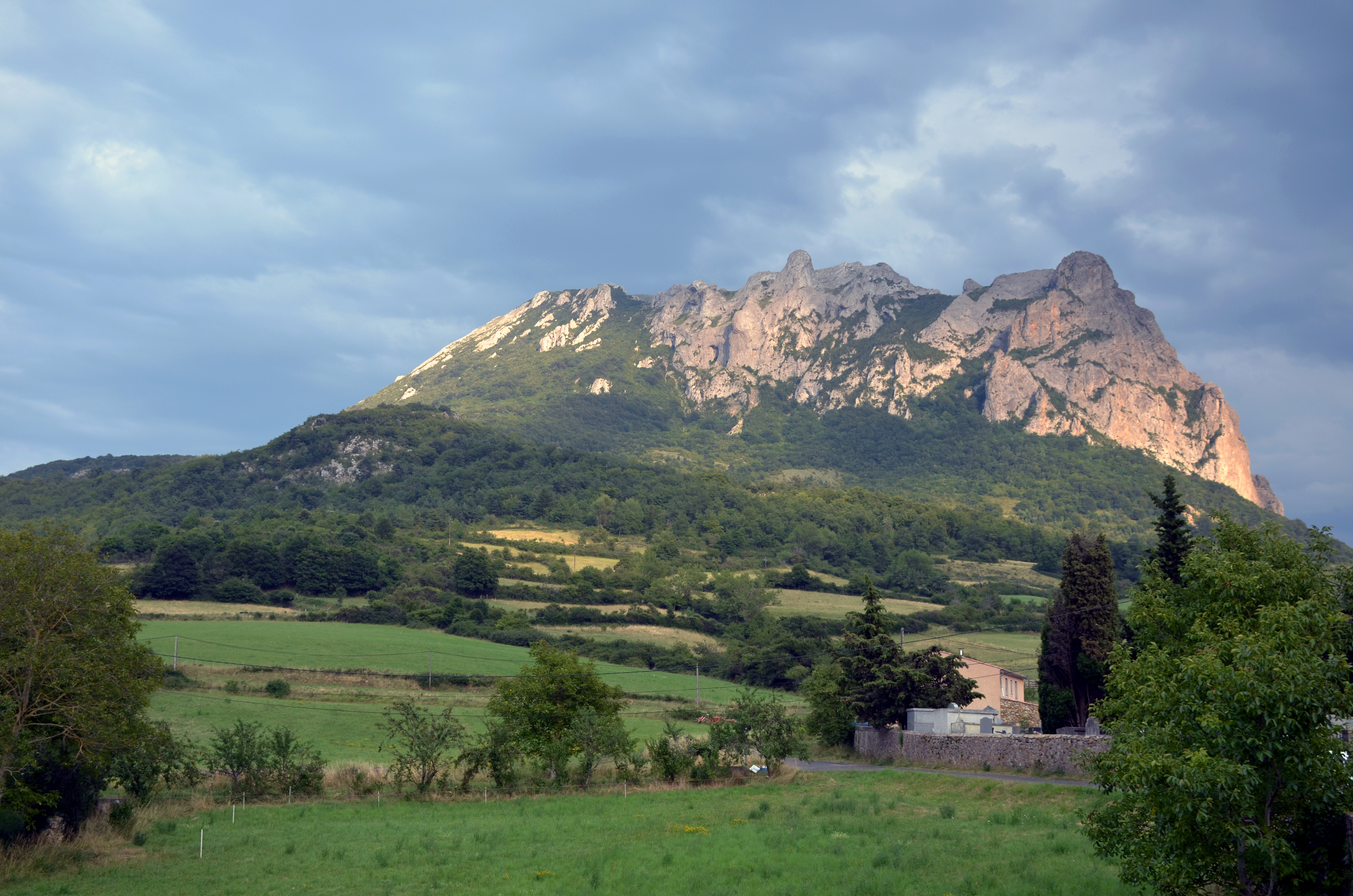 The mount Bugarach from the hights of Bugarach.